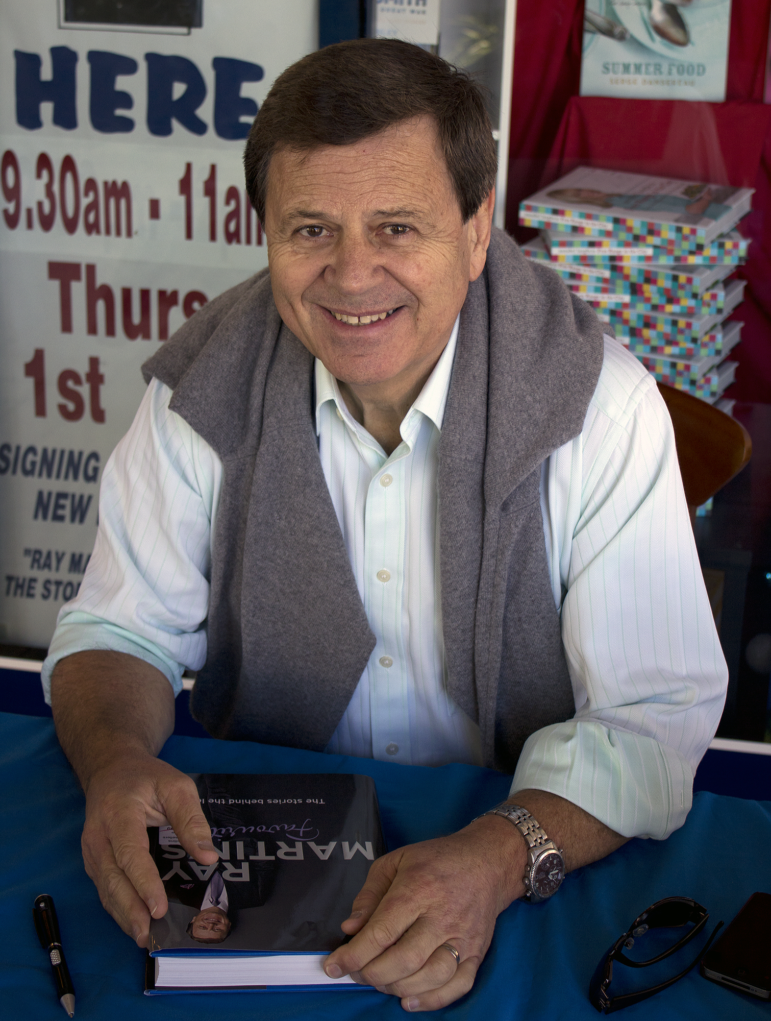 Ray Martin at an autographing session, for his new book, in Wagga Wagga.